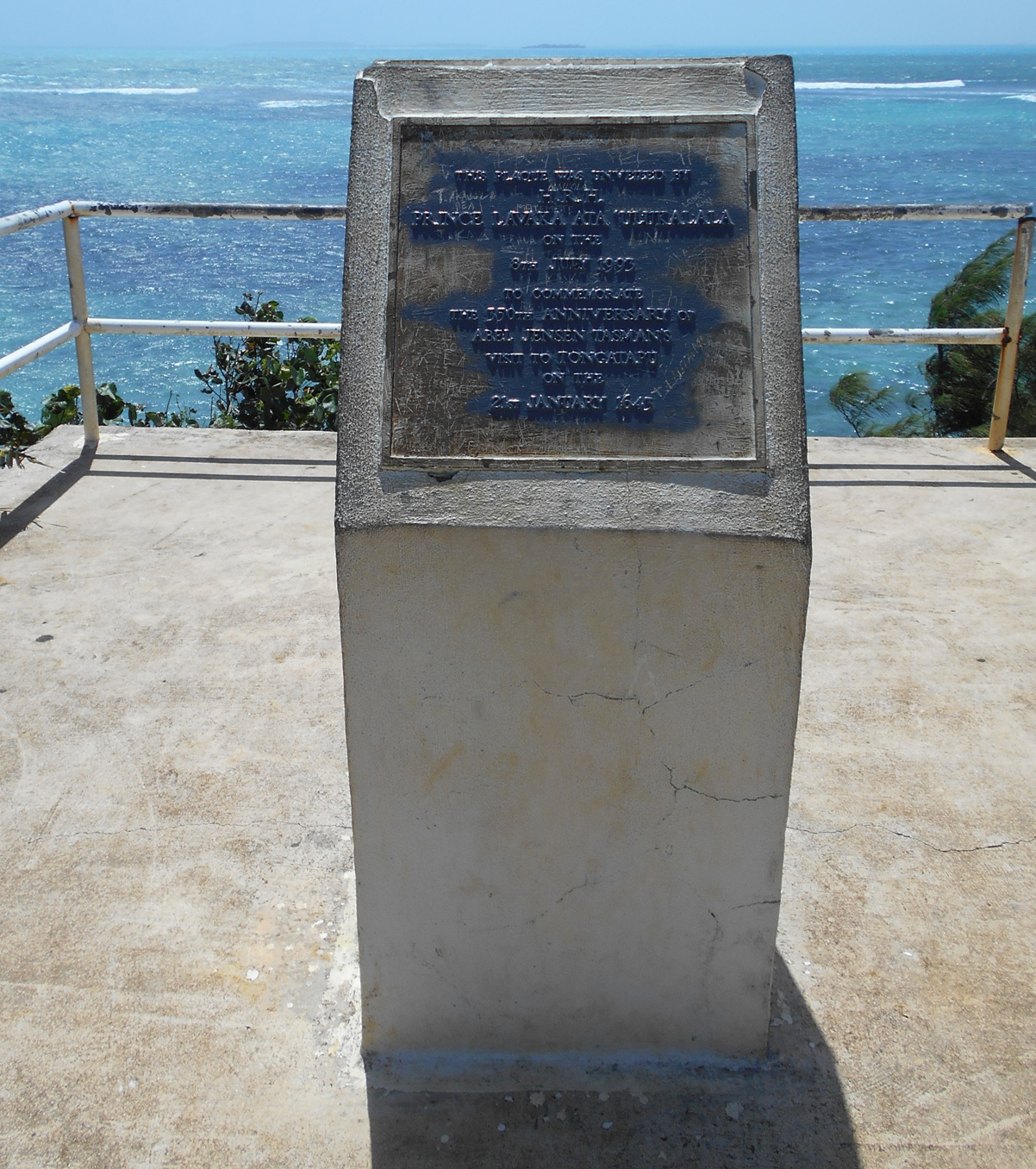 Abel Tasman's Landing Site –a historical monument erected at the northwestern tip of the island of Tongatapu (Tonga).